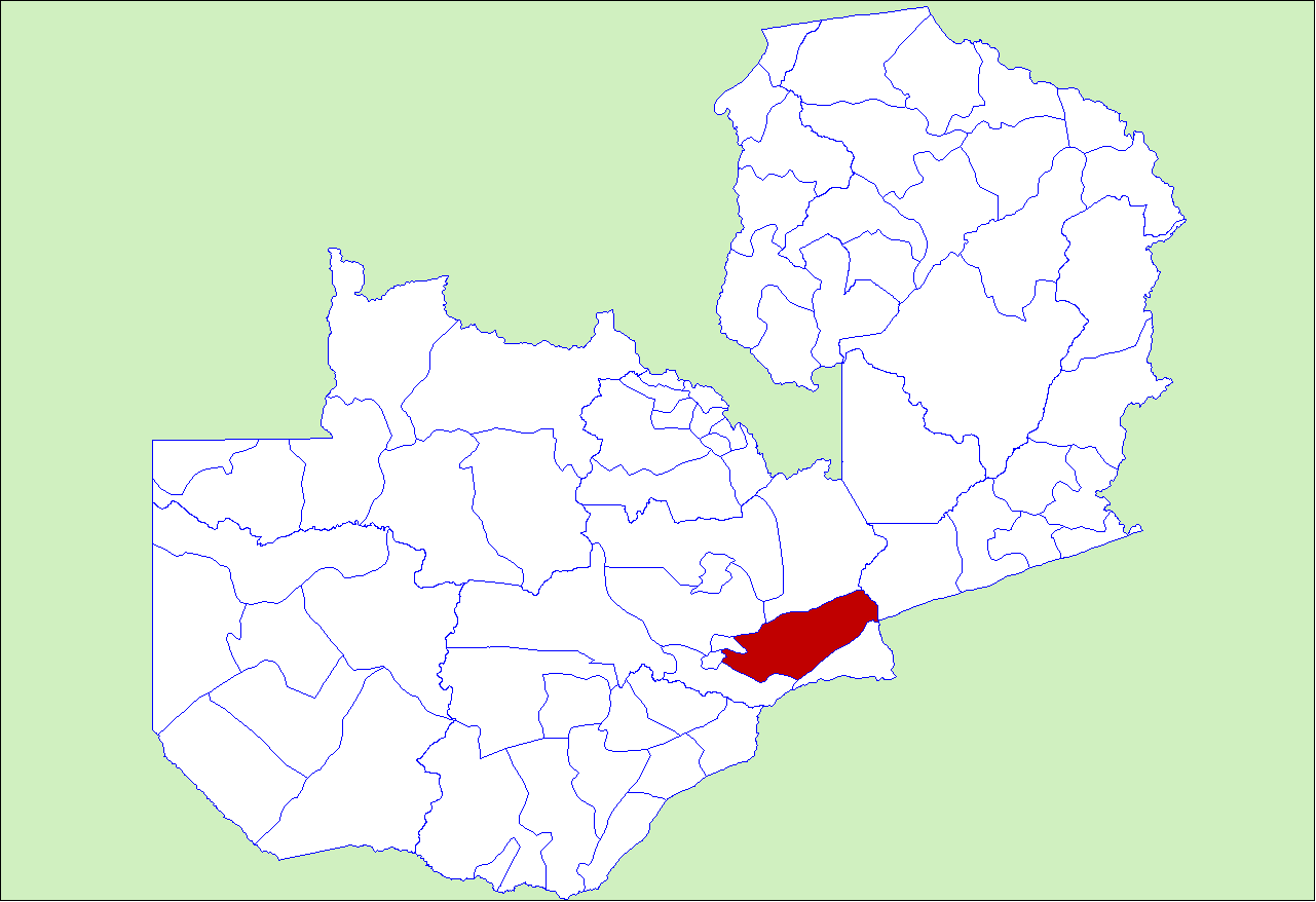 District locator in Zambia